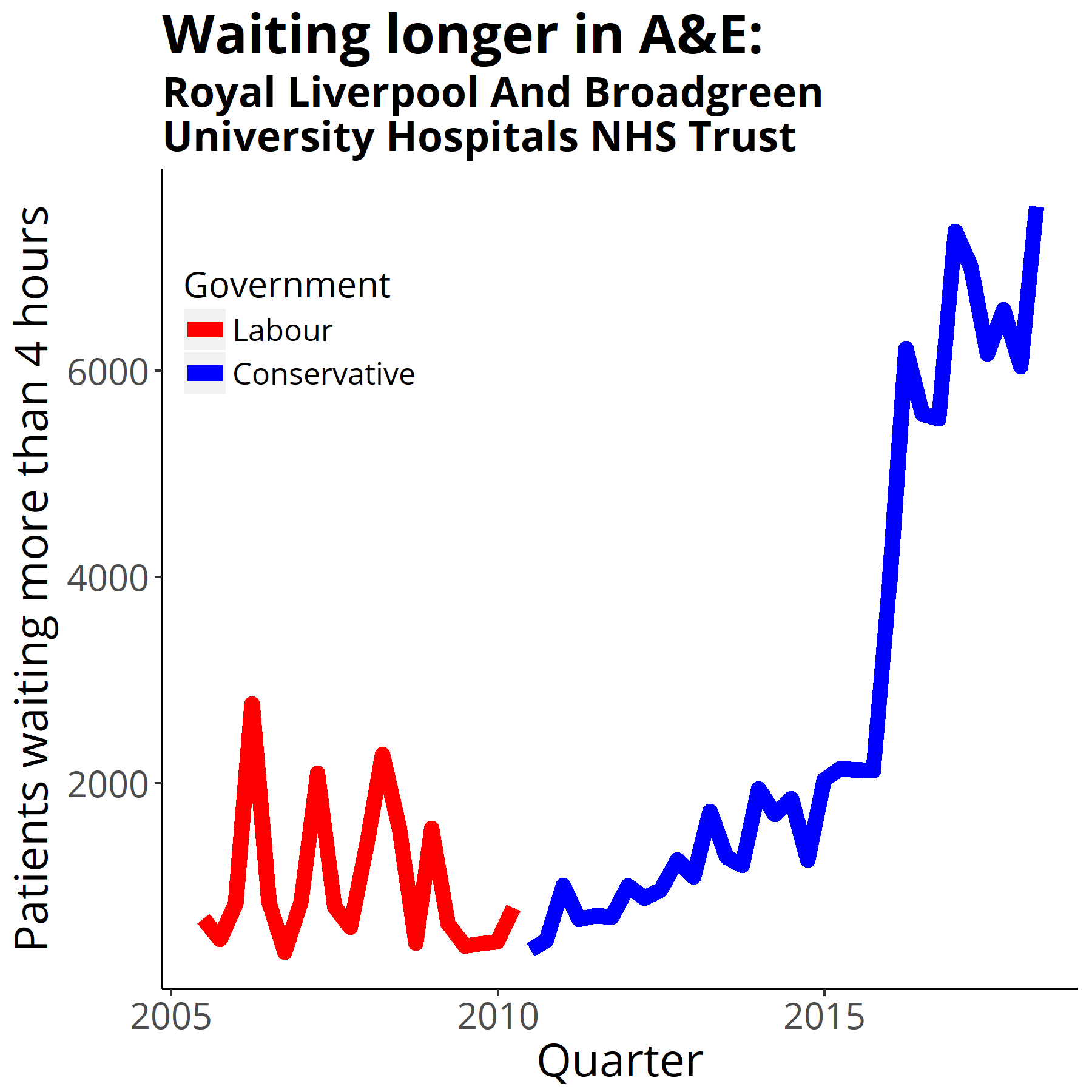 Four-hour target in the emergency department quarterly figures from NHS England Data from